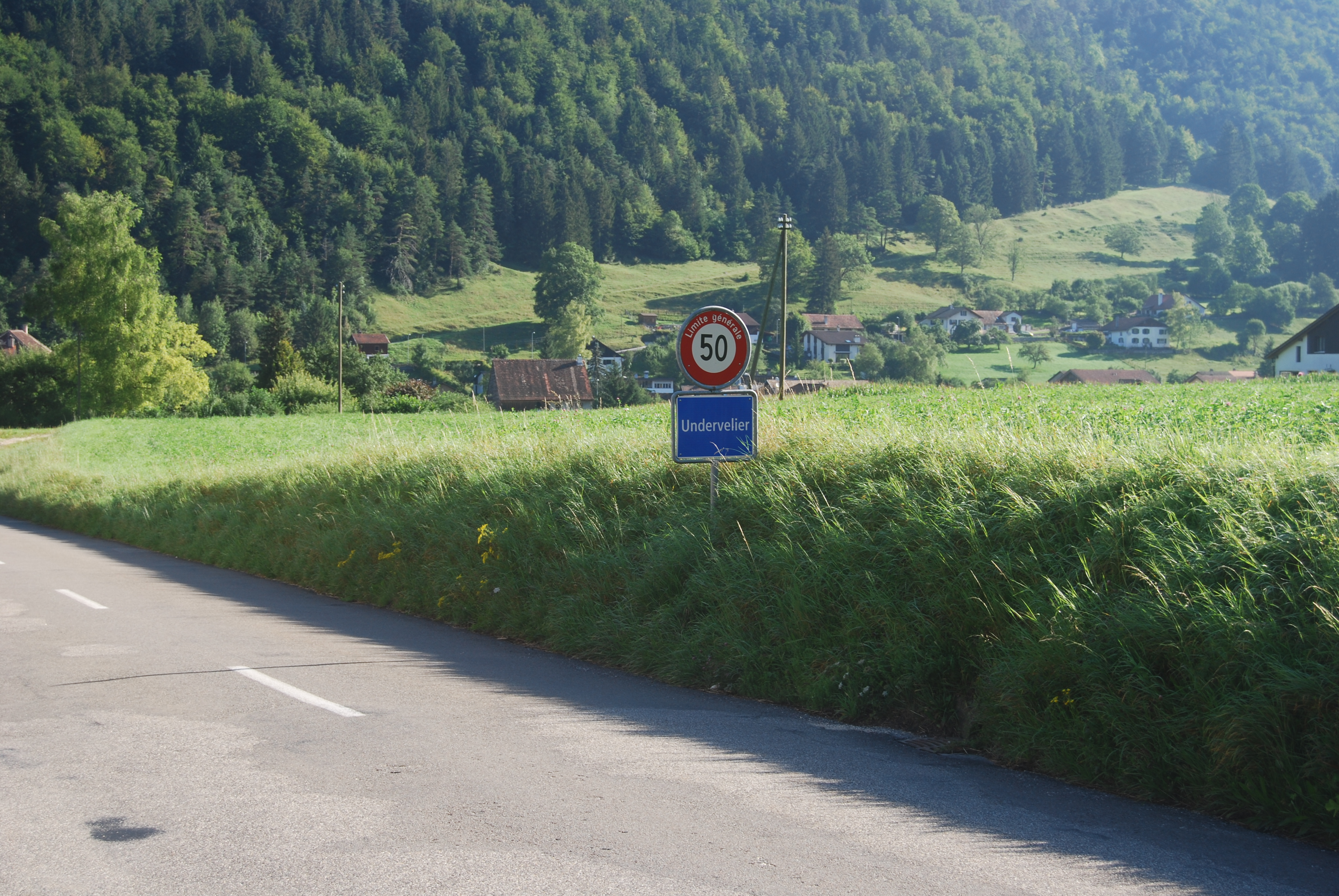 Village entry of Undervelier, canton of Jura, Switzerland